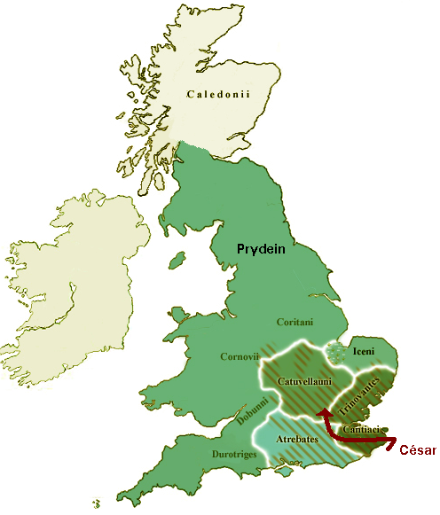 Mapa de Gran Bretaña, 54 DC aproximadamente